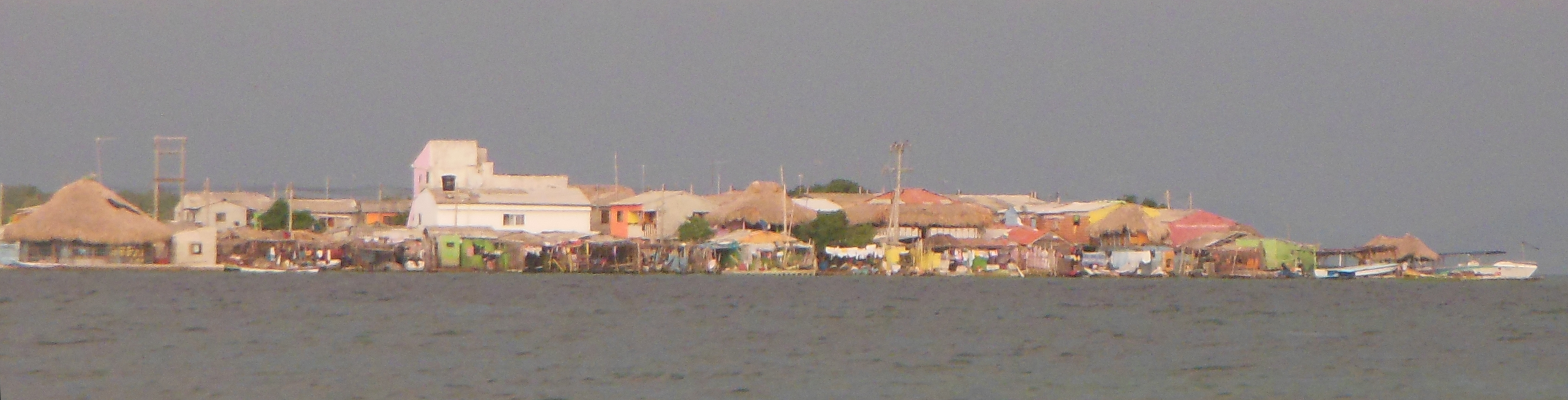 Santa Cruz del Islote, as seen from Múcura, Colombia